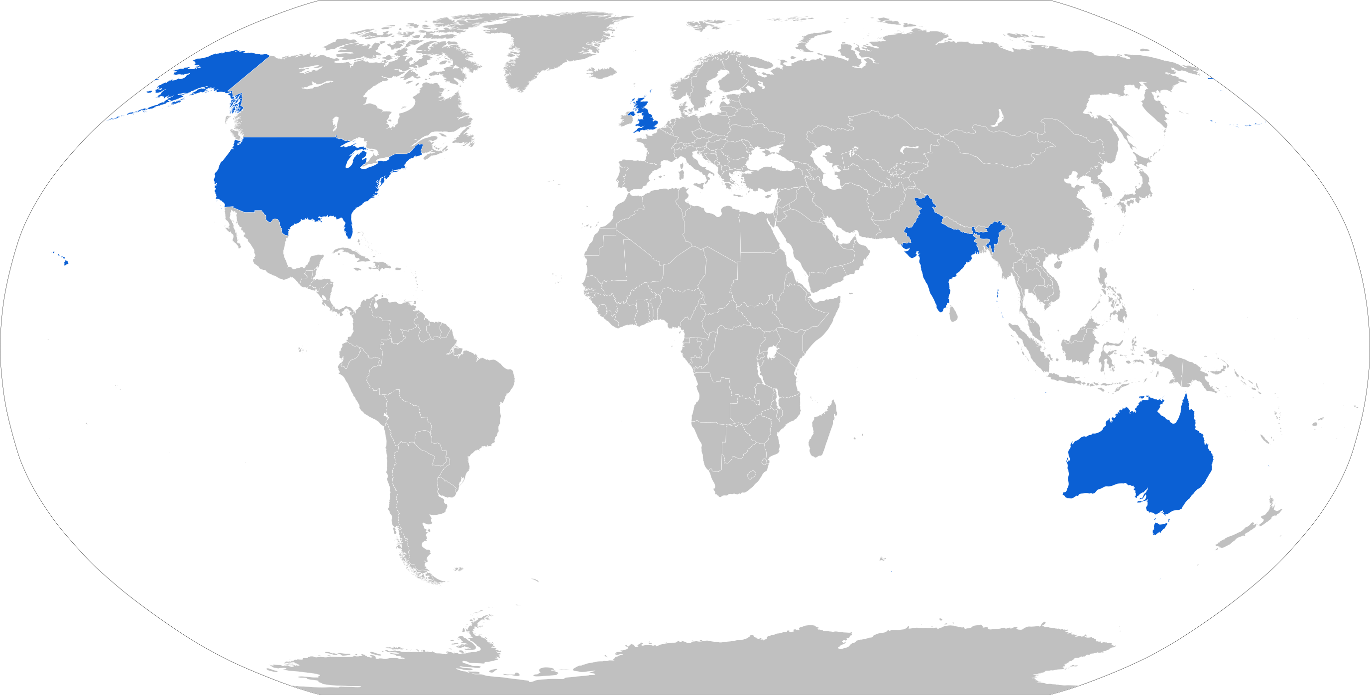 Map with P-8 operators in blue